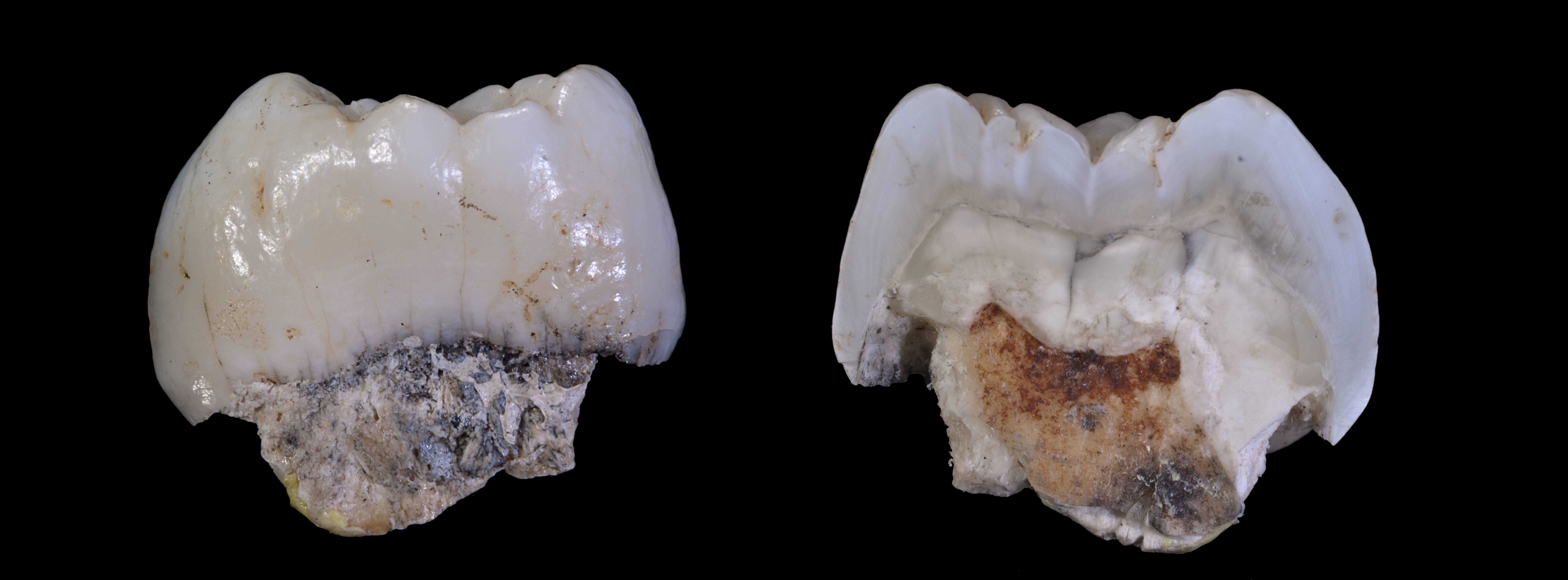 Tooth of Paranthropus robustus SKX 21841 from Swartkrans (26°00'S 27°45'E), Gauteng, South Africa to 1.8 million years. Collection of the Transvaal Museum, Northern Flagship Institute, Pretoria South-Africa. Specimens open for study.(16.17x13.09x5.48mm)